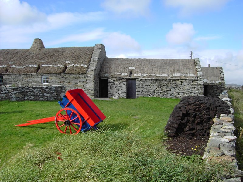 Shetland Crofthouse Museum, front, September 2006